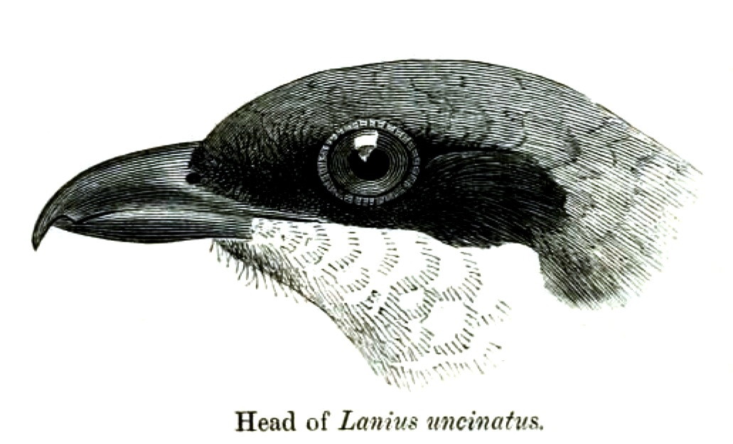 The head of Lanius meridionalis uncinatus